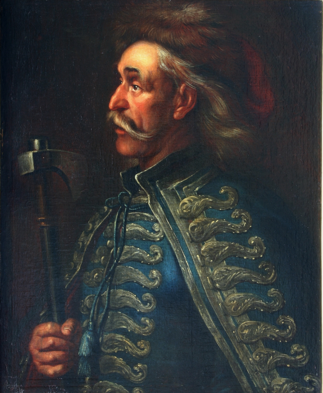 János Bottyán (1643-1709), commanding general of the kuruc army in Western Hungary.